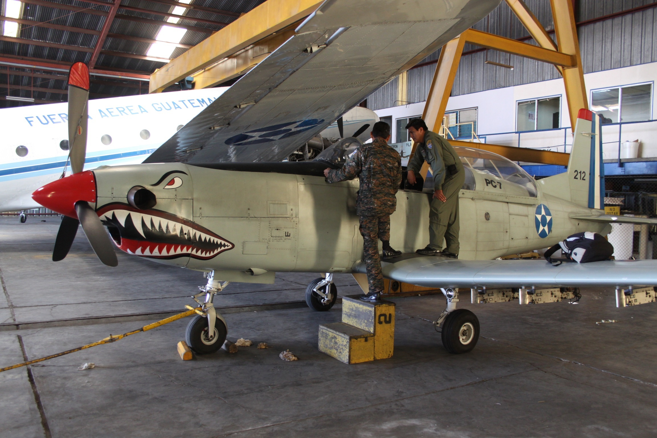 At Guatemala La Aurora International